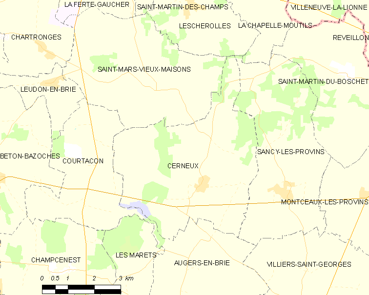 Map of French municipality Cerneux